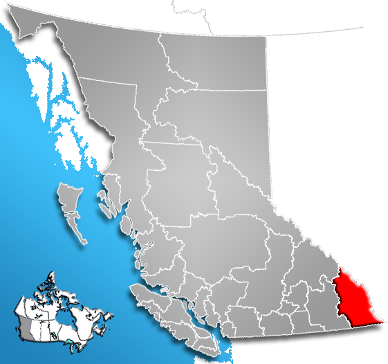 Location of Regional District of East Kootenay, British Columbia